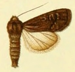 Image from Plate 7 of Die Gross-Schmetterlinge der Erde (The Macrolepidoptera of the World) Vol. 3